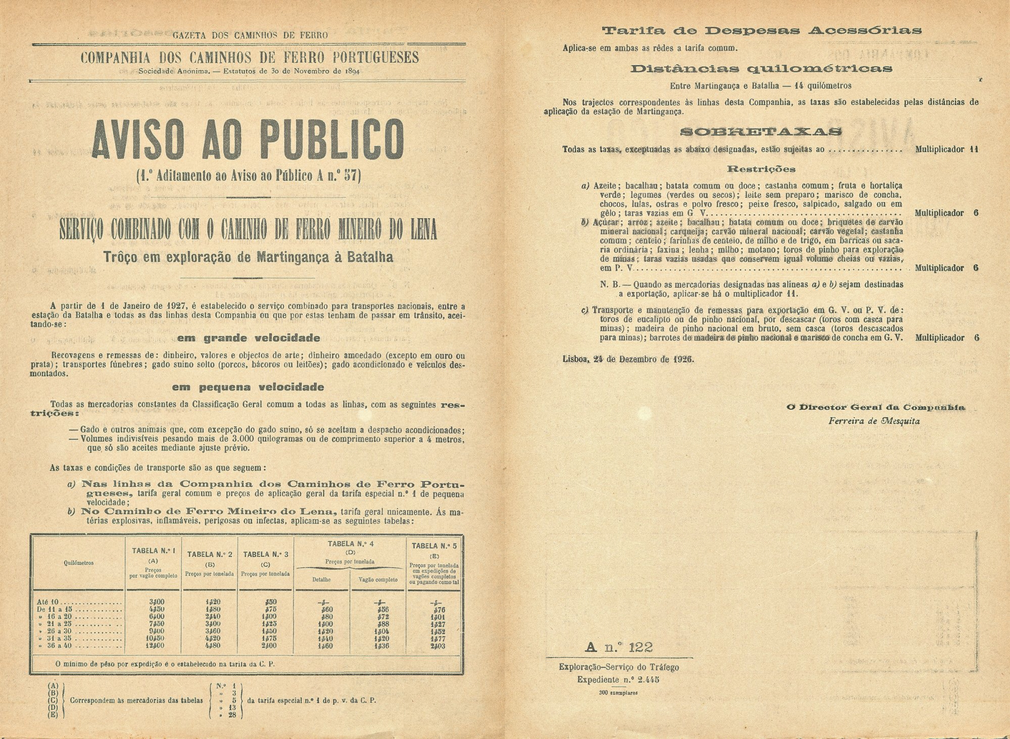 Public warning informing the fees and conditions to combined goods transport between the Companhia dos Caminhos de Ferro Portugueses (Portuguese Railways Company) and the The Match and Tobacco Timber Supply Company, owner of the Lena mines Railway. This image was published on the Gazeta dos Caminhos de Ferro magazine no. 937, of the 1st January 1927, and scanned by the Hemeroteca Municipal de Lisboa.